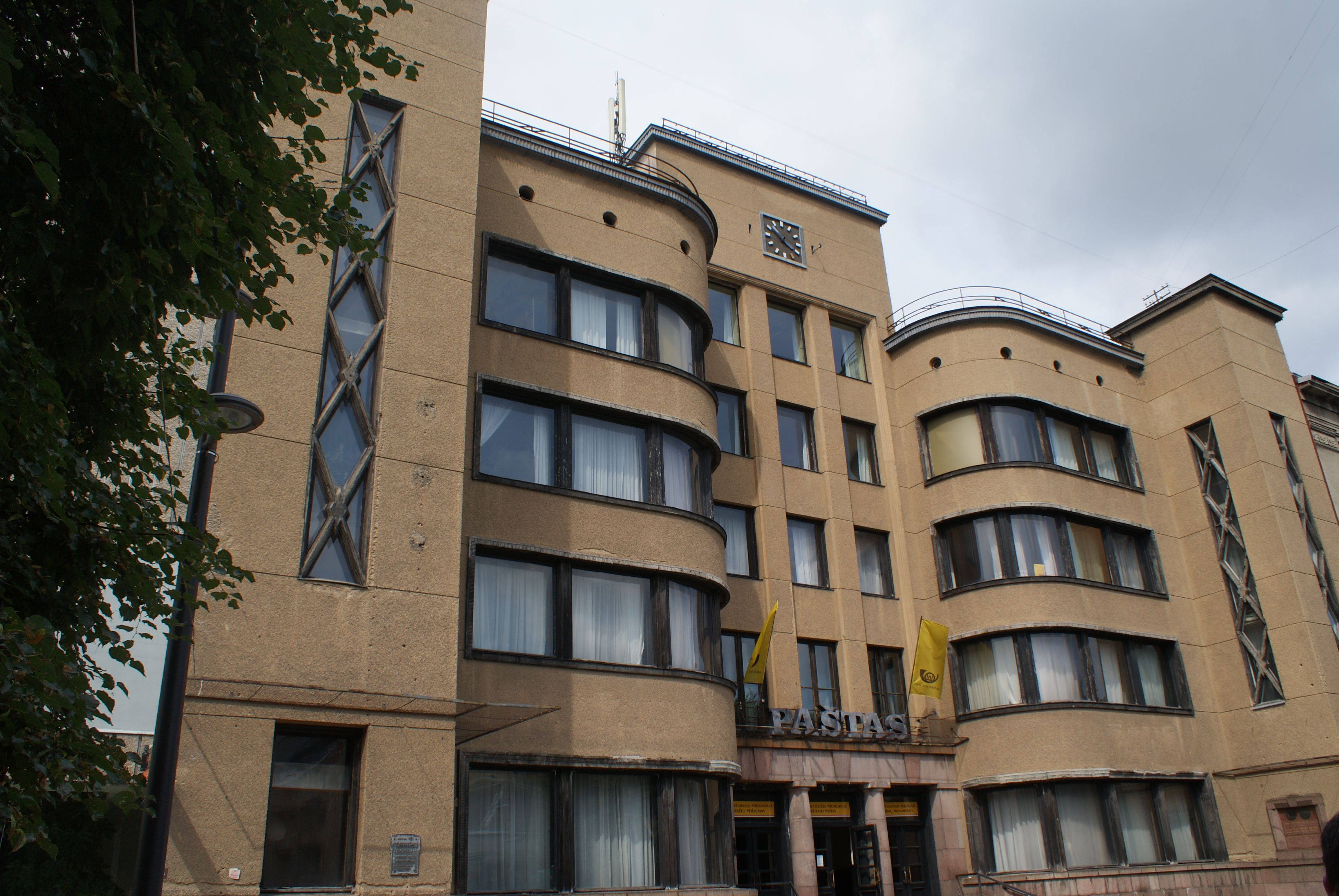 Kaunas